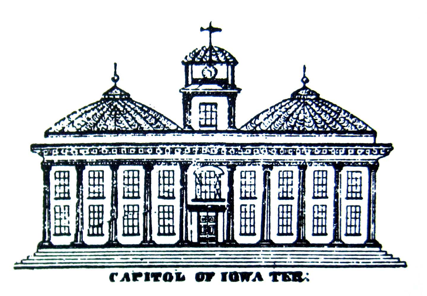 Sketch of proposed Iowa Capitol, 1839 Plat Map of Iowa City, E. Dupris, Publisher, St. Louis